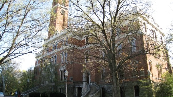 After the Old Main fire of 1905, the building was rebuilt, and renamed Kirkland Hall. It serves as the main building of Vanderbilt's administration.